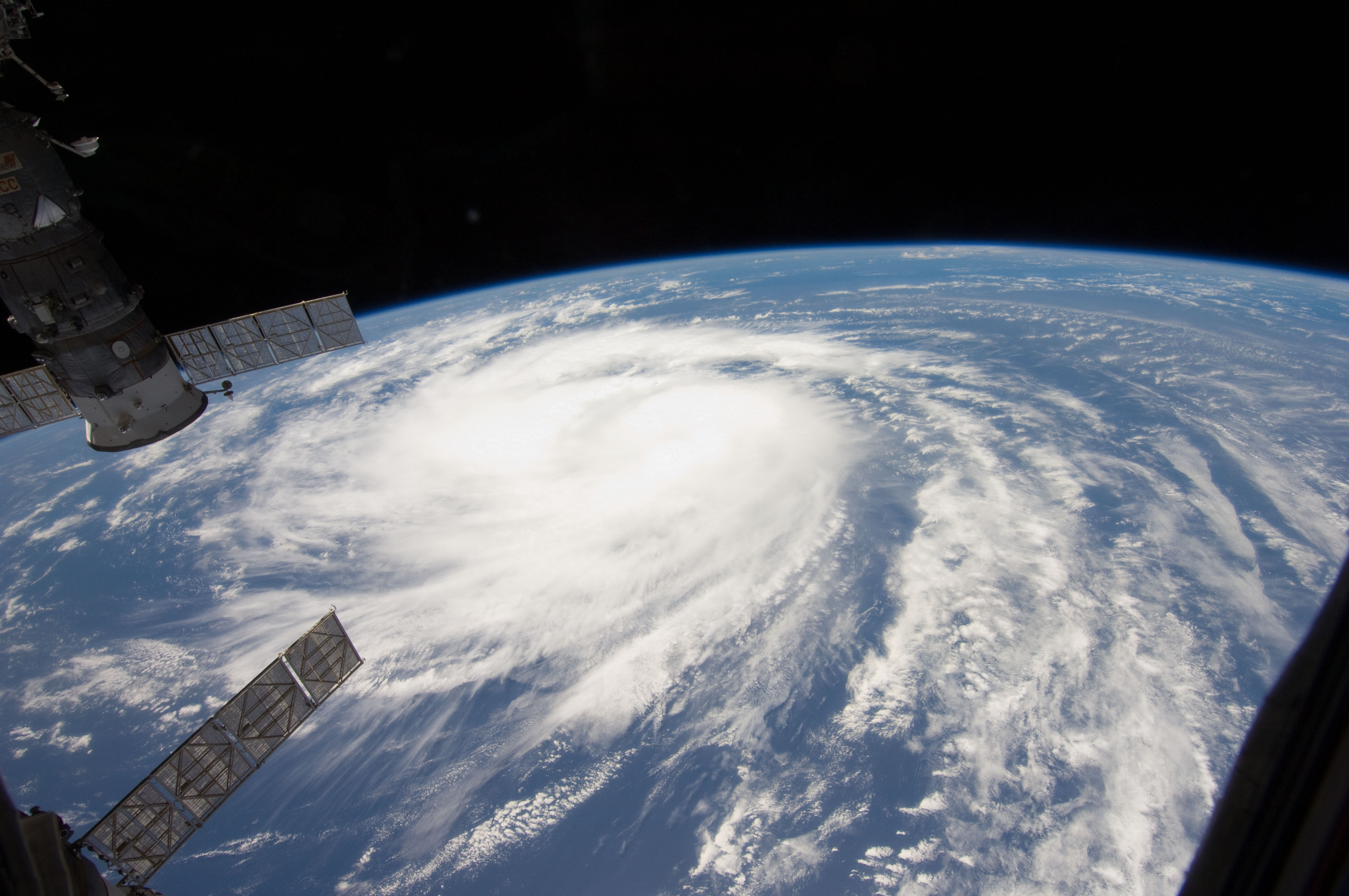 Katia was a tropical storm gathering energy over the Atlantic Ocean when one of the Expedition 28 crew took this photo on Aug. 31, 2011, from aboard the International Space Station. The picture, taken with a 12-mm focal length, was captured at 14:09:01 GMT. Later in the day Katia was upgraded to hurricane status. Two Russian spacecraft -- a Progress and a Soyuz --can be seen parked at the orbital outpost on the left side of the frame.